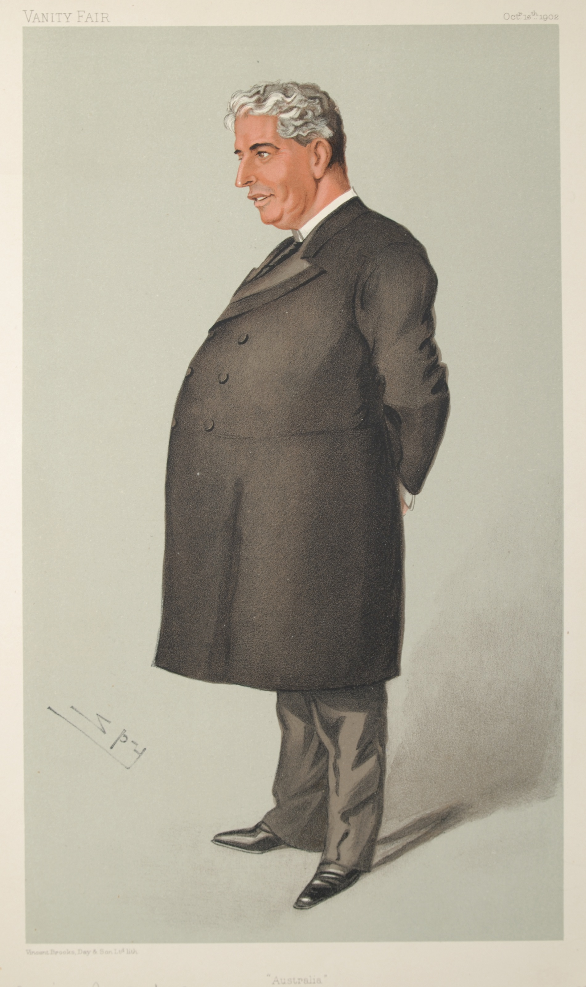 Men of the Day No. 854: Caricature of Sir Edmund Barton, Prime Minister of Australia. Caption read "Australia".